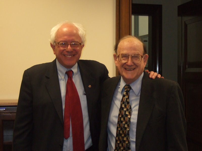 Senator Bernie Sanders met with Vermont State Senator William Doyle. Senator Doyle has represented Washington County in the Vermont State Senate since 1969.